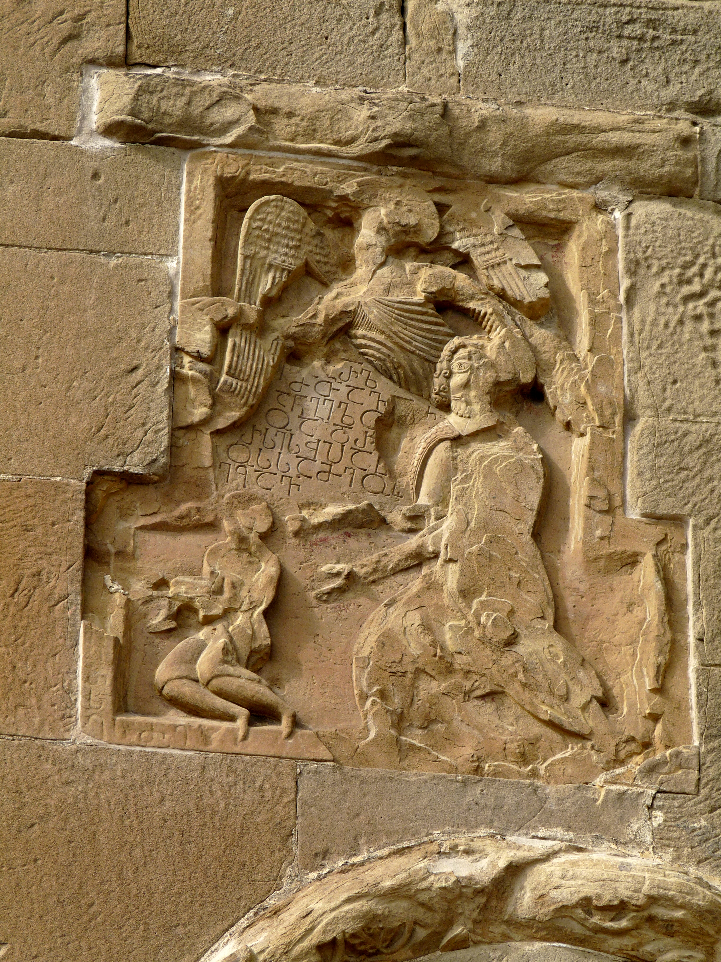 Mtskheta- Relief on Jvari Church